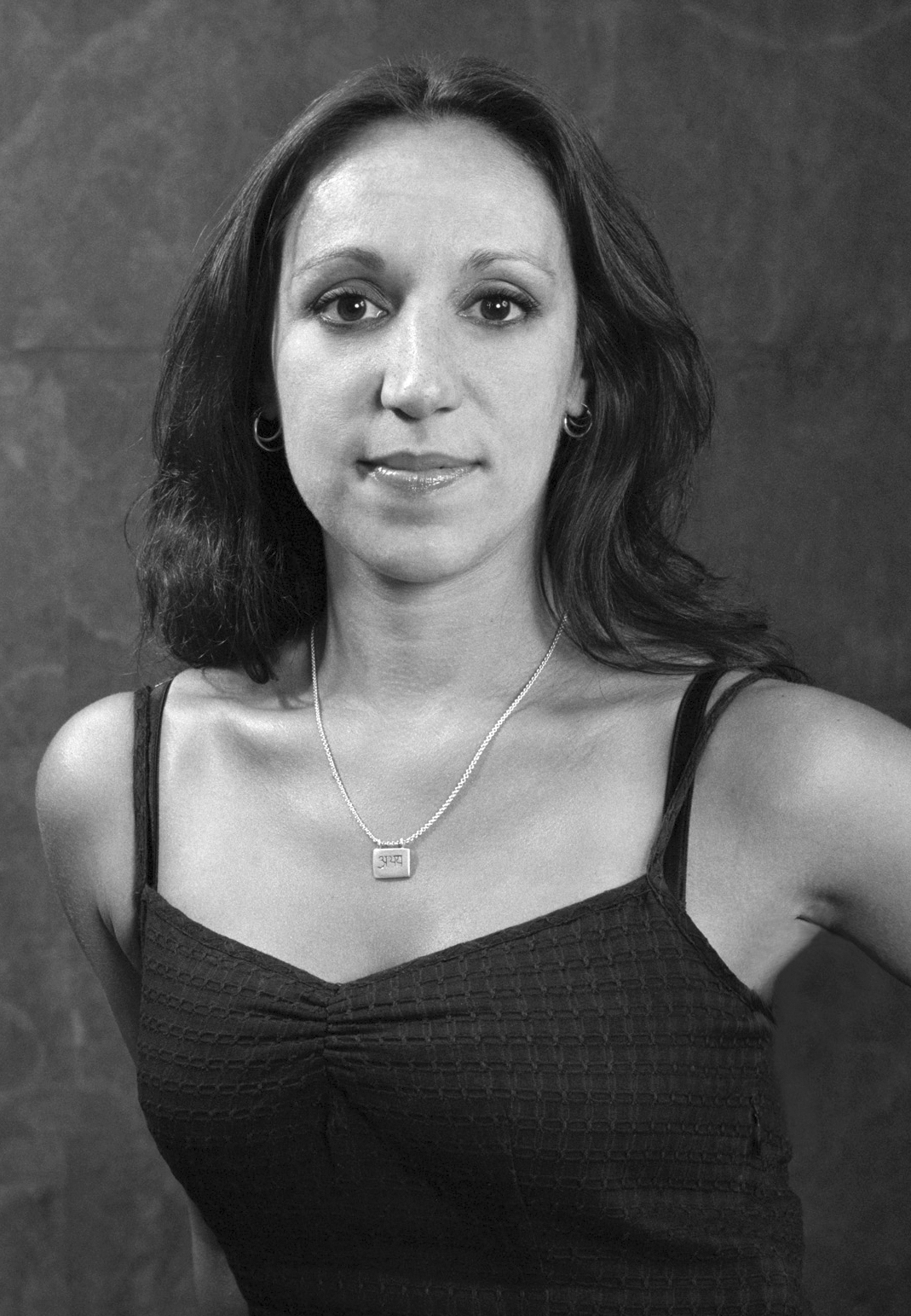 Shamim M. Momin will be a speaker at the 2011-12 Hot Topics Discussion Series. He is the Director, Curator, and Co-founder of the recently formed Los Angeles Nomadic Division (LAND), a non-profit public art organization committed to presenting site- and situation-specific contemporary art projects in Los Angeles and beyond. She is the former contemporary curator at the Whitney Museum of American Art and co-curated both the 2008 and 2004 Whitney Biennial exhibitions.